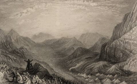 Encampment of Israelites, Mount Sinai, as in Numbers 33:15, intaglio print from "Landscape illustrations of the Bible", at the Tate